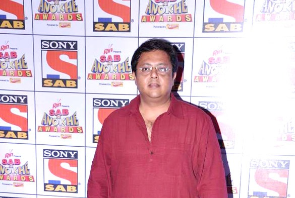 Nitesh at Red carpet of SAB Ke Anokhe Awards (cropped)